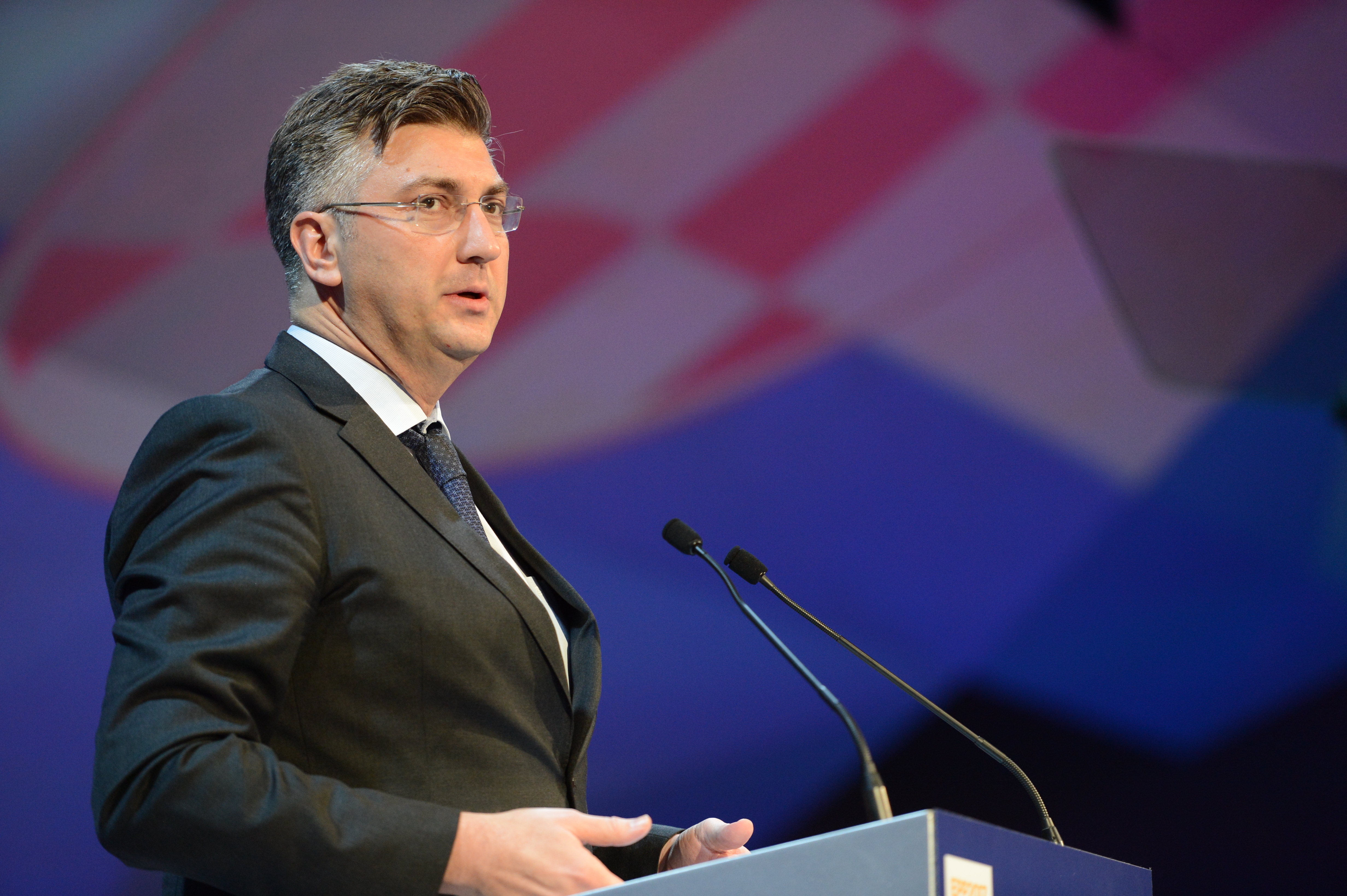 EPP Malta Congress 2017 ; 30 March